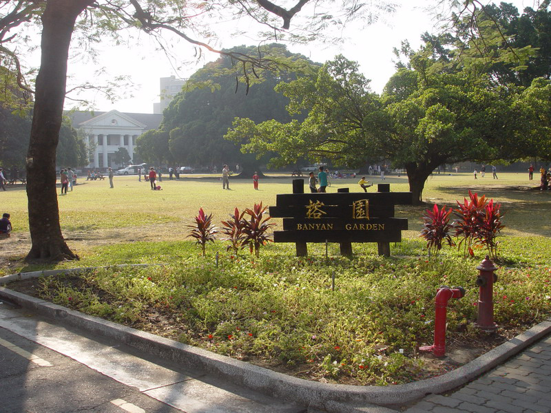 Rong Yuan of NCKU, by Rinto Jiang